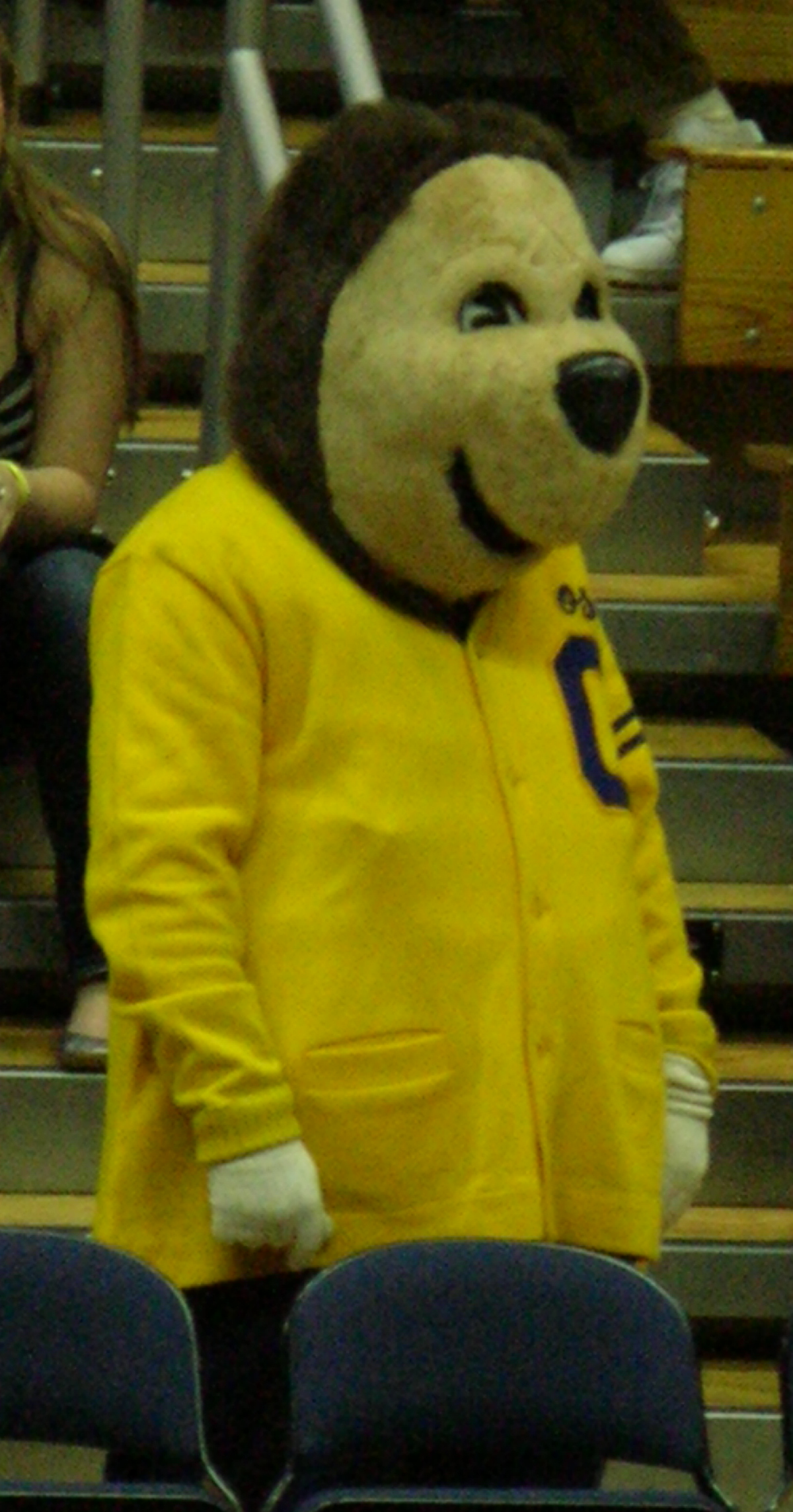 California Golden Bears mascot Oski at the the 2008 Golden Bear Classic championship game between the Golden Bears and Portland Pilots in Berkeley. The Golden Bears won 81-61.